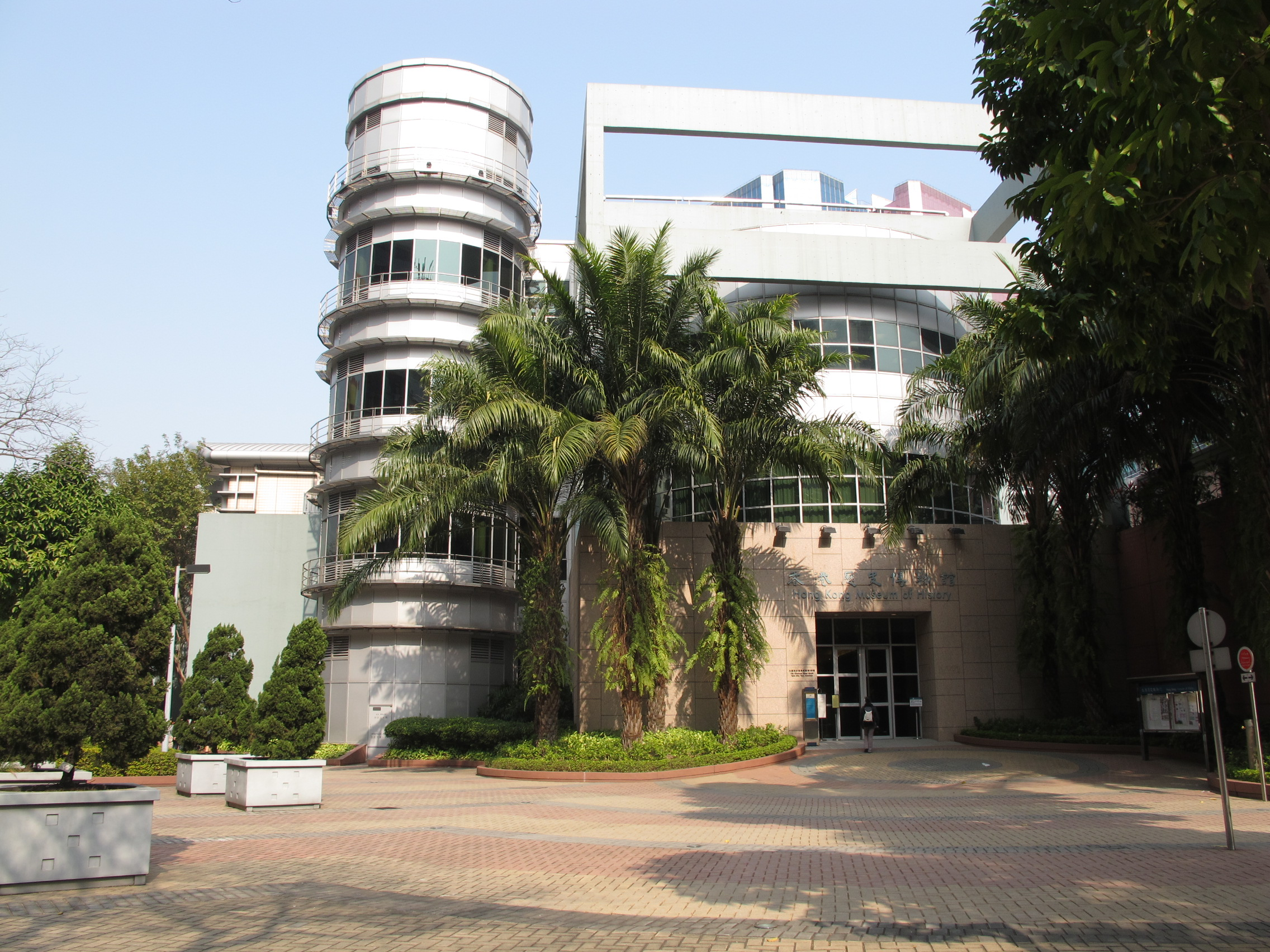 Hong Kong Museum of History